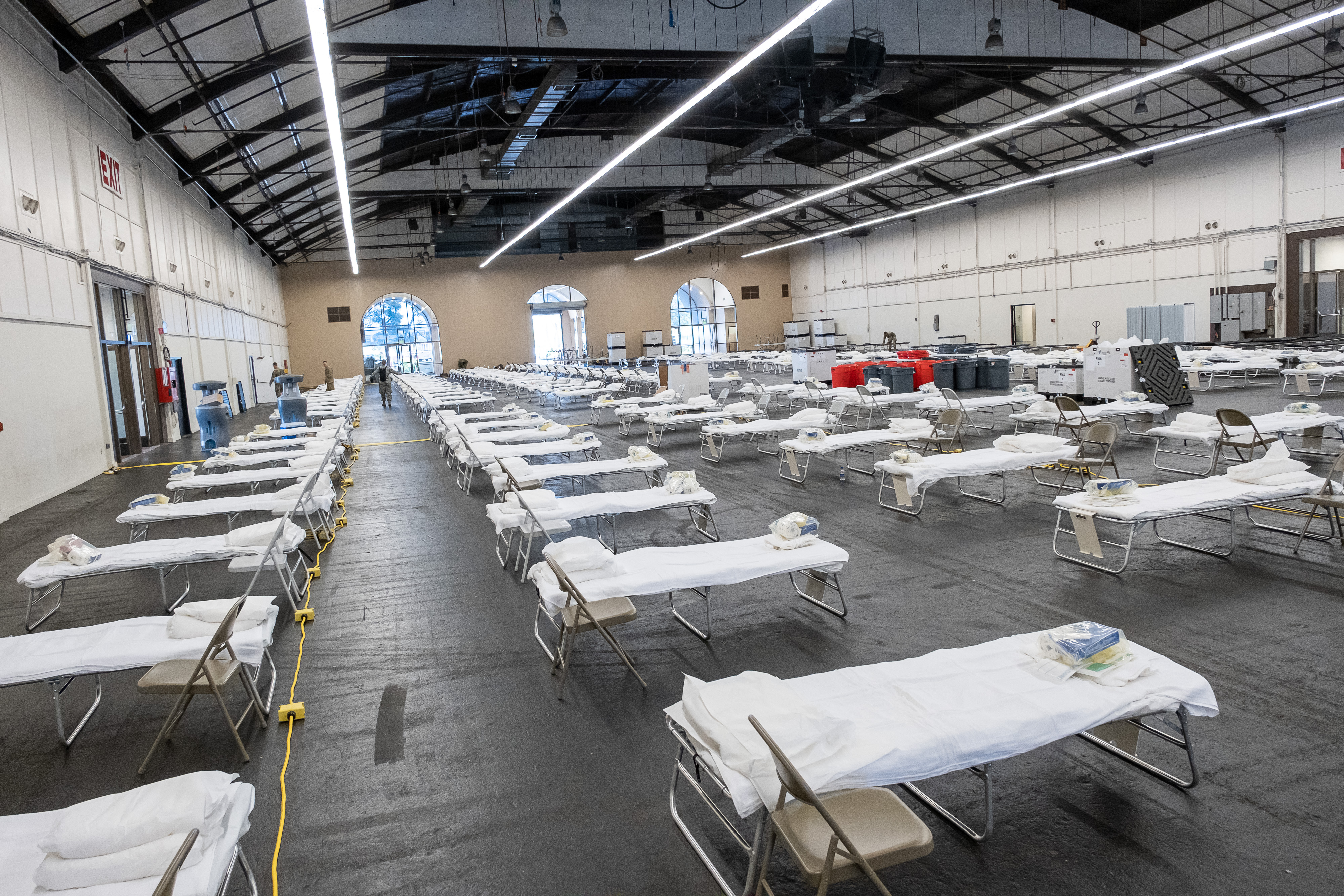 California National Guard staff set up equipment for a Federal Medical Station to support San Mateo County's COVID-19 response. Housed at the San Mateo County Event Center (fairgrounds), the FMS will provide sub-acute, non-traumatic, non-surgical treatment when local hospital capacity has been exceeded. Photo: San Mateo County